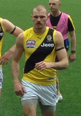 2017 AFL Grand Final. Richmond enter the race at half time to go back to their rooms.